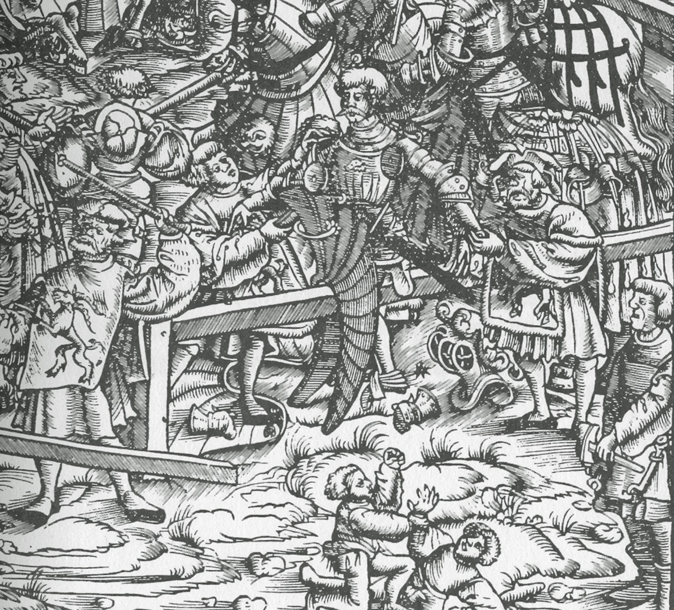 Straddeling the Fence: Punishment at tournaments for breaking the rules The deliquent was put across the fence of the tournament area and beaten